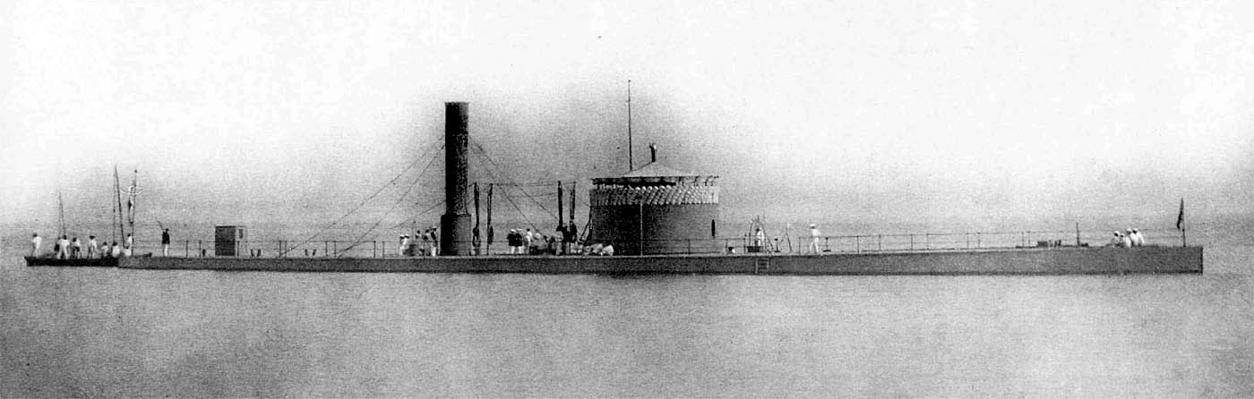 Imperial Russian turret armour-clad boat Veshchun.